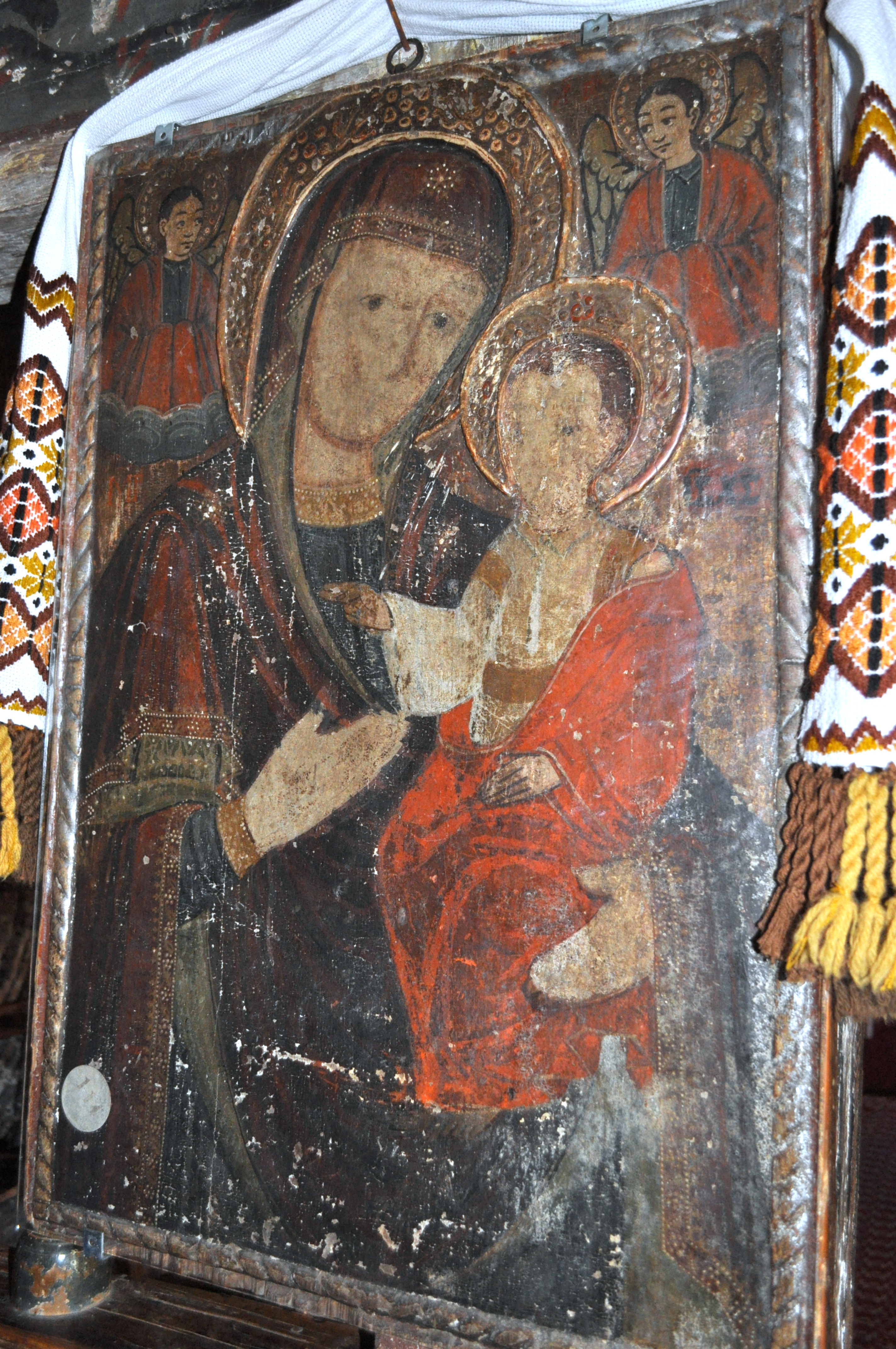 Wooden church in Săcalu de Pădure, Mureș countyRomână: Biserica de lemn din Săcalu de Pădure, județul Mureș